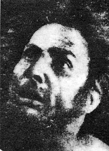 Bijon Bhattacharya in Nabanna, 1944.Photographs first published by Indian citizen(s) prior to 1946-01-01. Uncredited picture found in Sukanta Choudhury edited: Calcutta, The Living City, Vol II. Calcutta: Oxford University